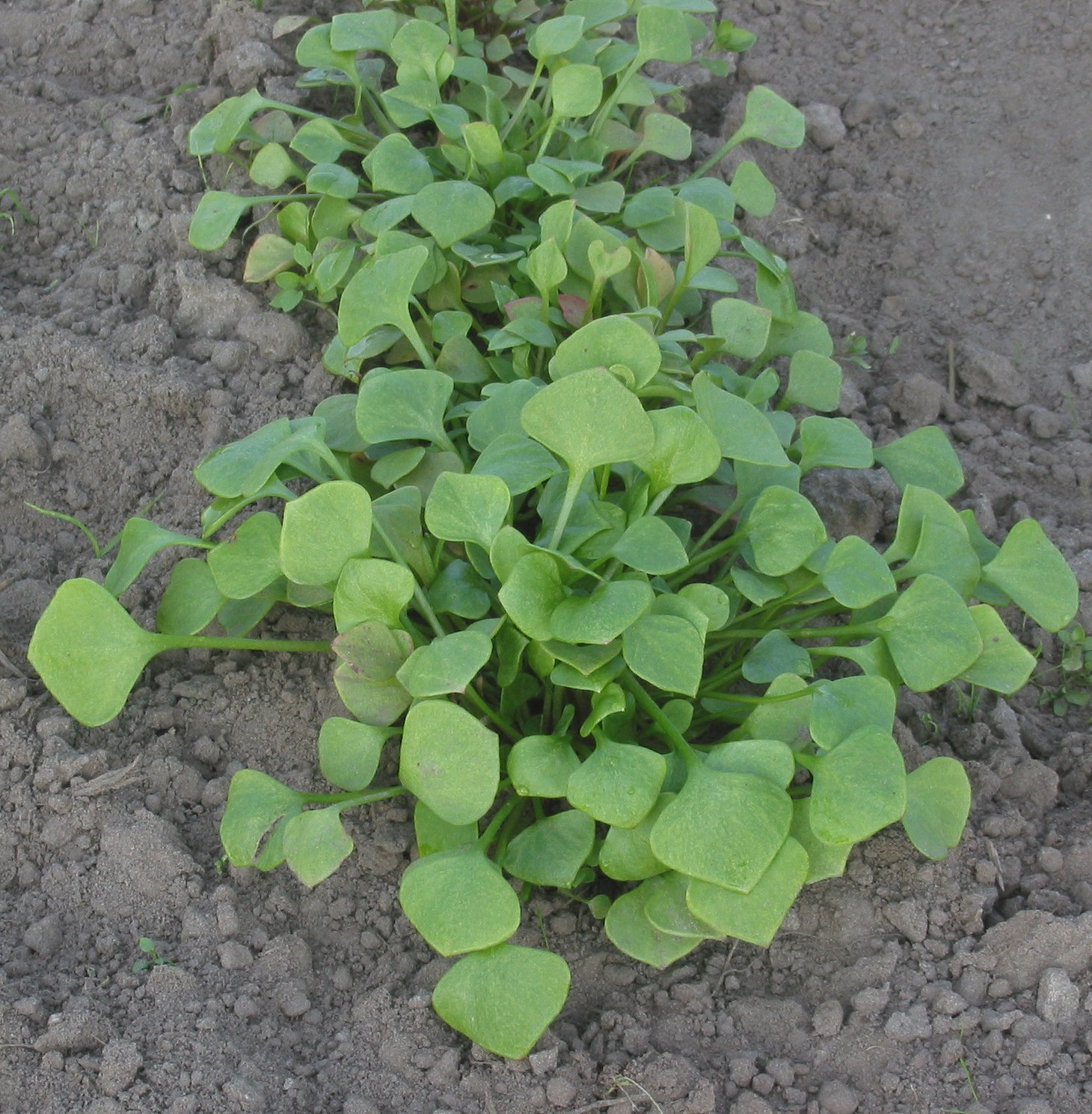 Claytonia perfoliata